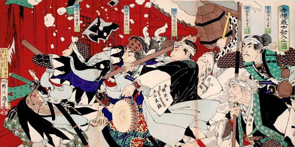 A View of Loyal Ako Samarui Breaking into Kira's Mansion, woodblock print triptych by Yamazaki Toshinobu II, 1886, Honolulu Museum of Art